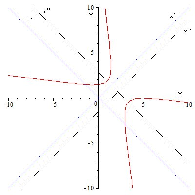 Example of the reduction of a conic section (here a hyperbola). De hyperbola is plotted in the original xy-axes. The rotated axes x'y' and the shiftd axes xy are shown